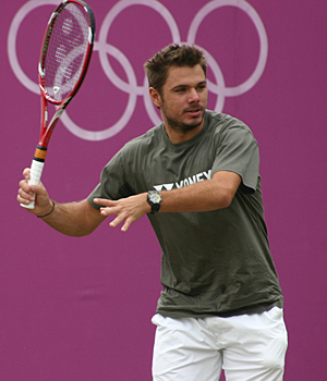 Stanislas Wawrinka at the 2012 Summer Olympics.